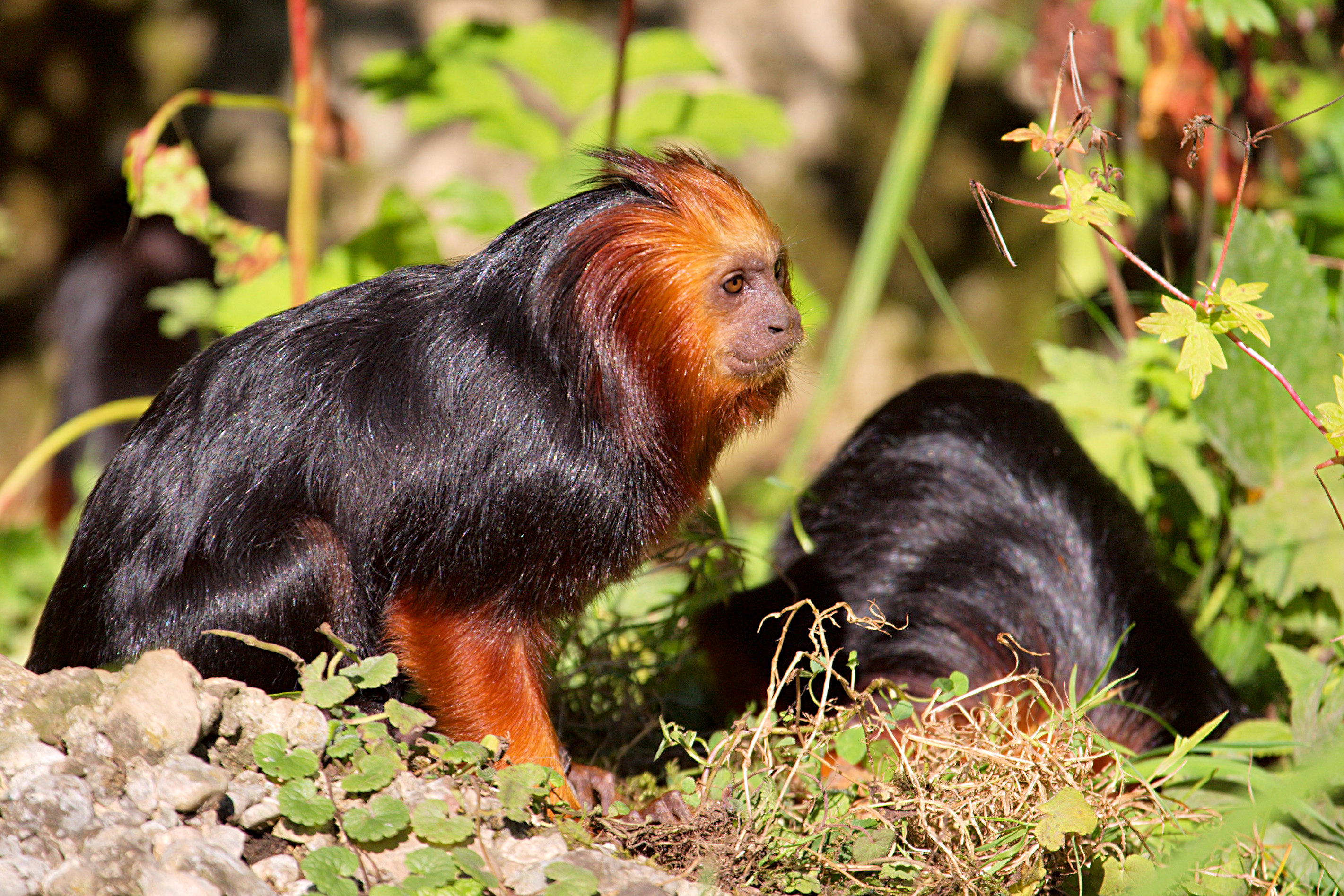 Leontopithecus chrysomelas in zoo Salzburg